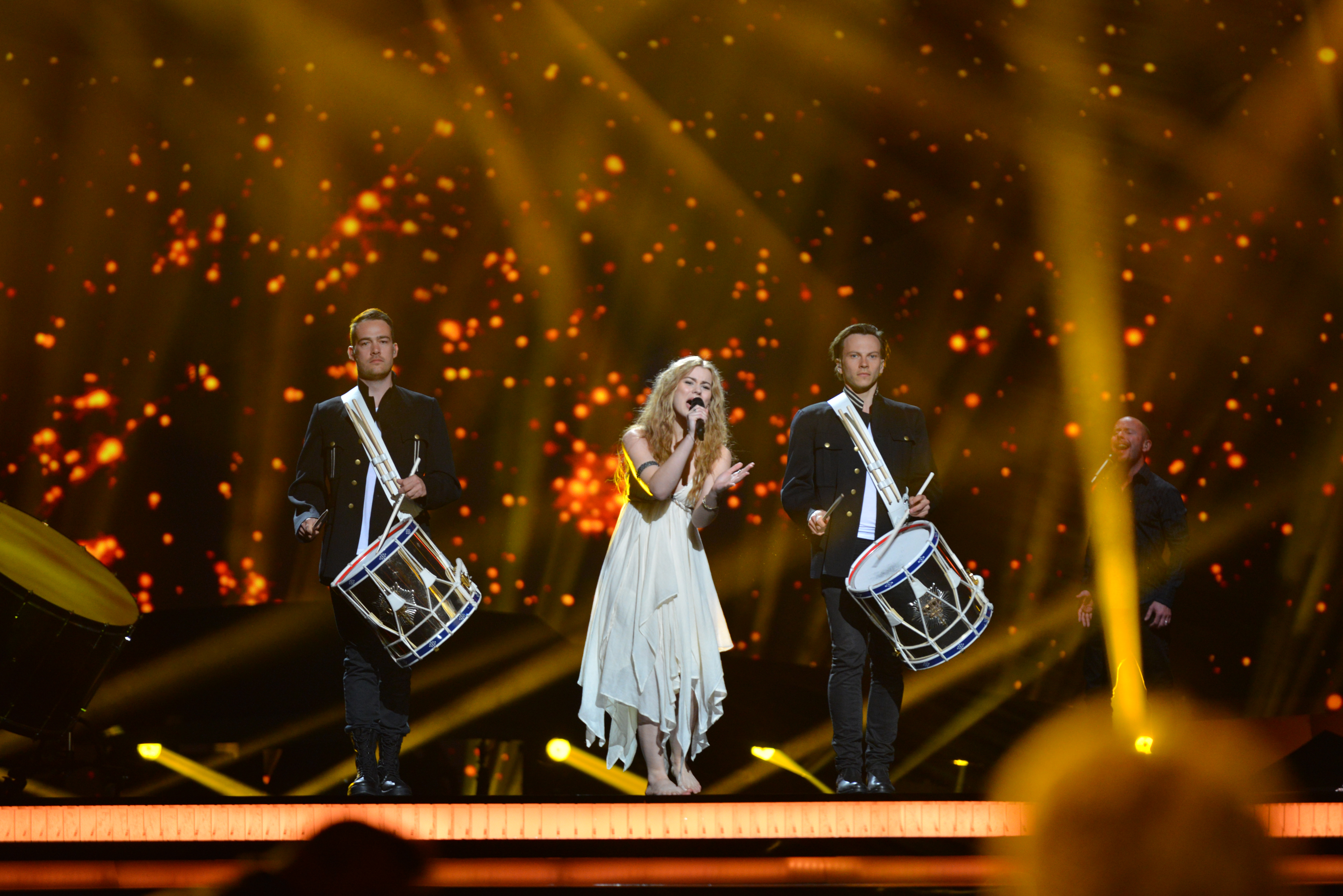 Emmelie de Forest representing Denmark with the song "Only Teardrops" during the first dress rehearsal of the first semi final of the Eurovision Song Contest 2013 in Malmö. (Help translate this text)